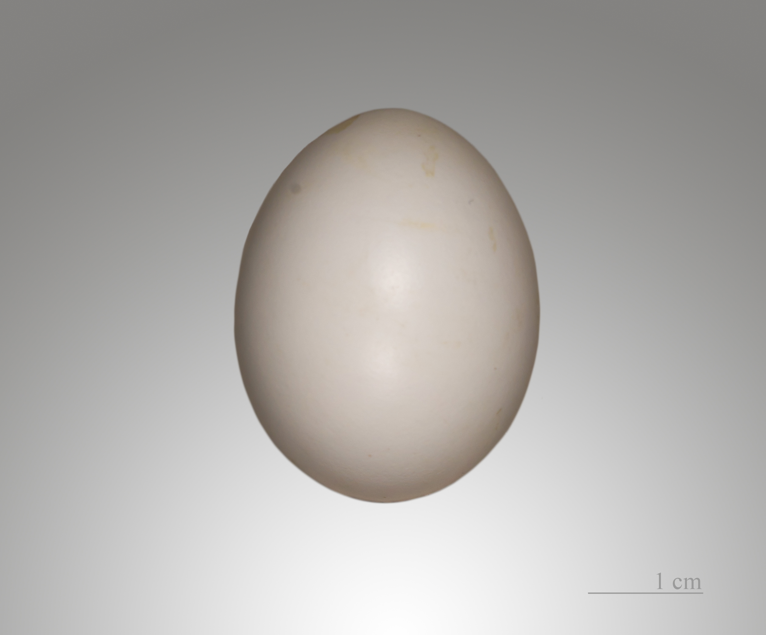 Egg of Common Bronzewing. Collection Jacques Perrin de Brichambaut.